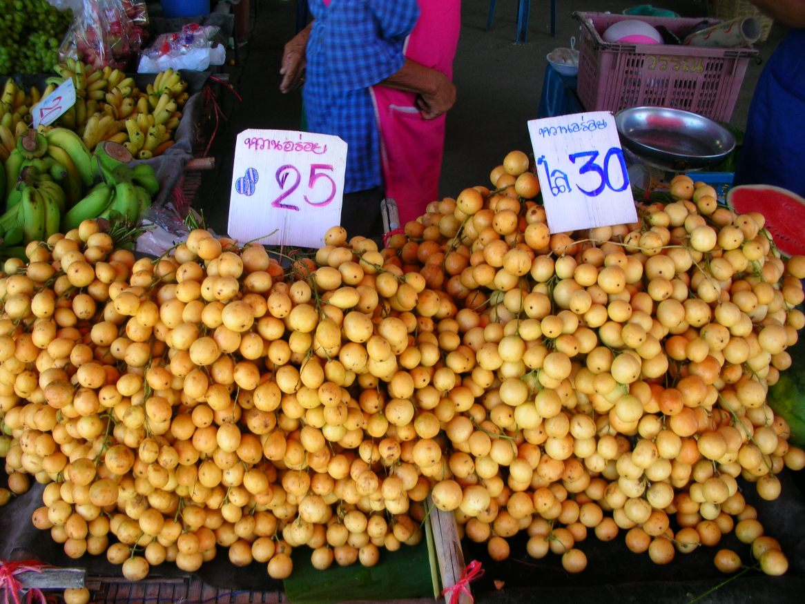 Burmese grape (Baccaurea ramiflora) at the market in Ban Pong, Ratchaburi Province, Thailand